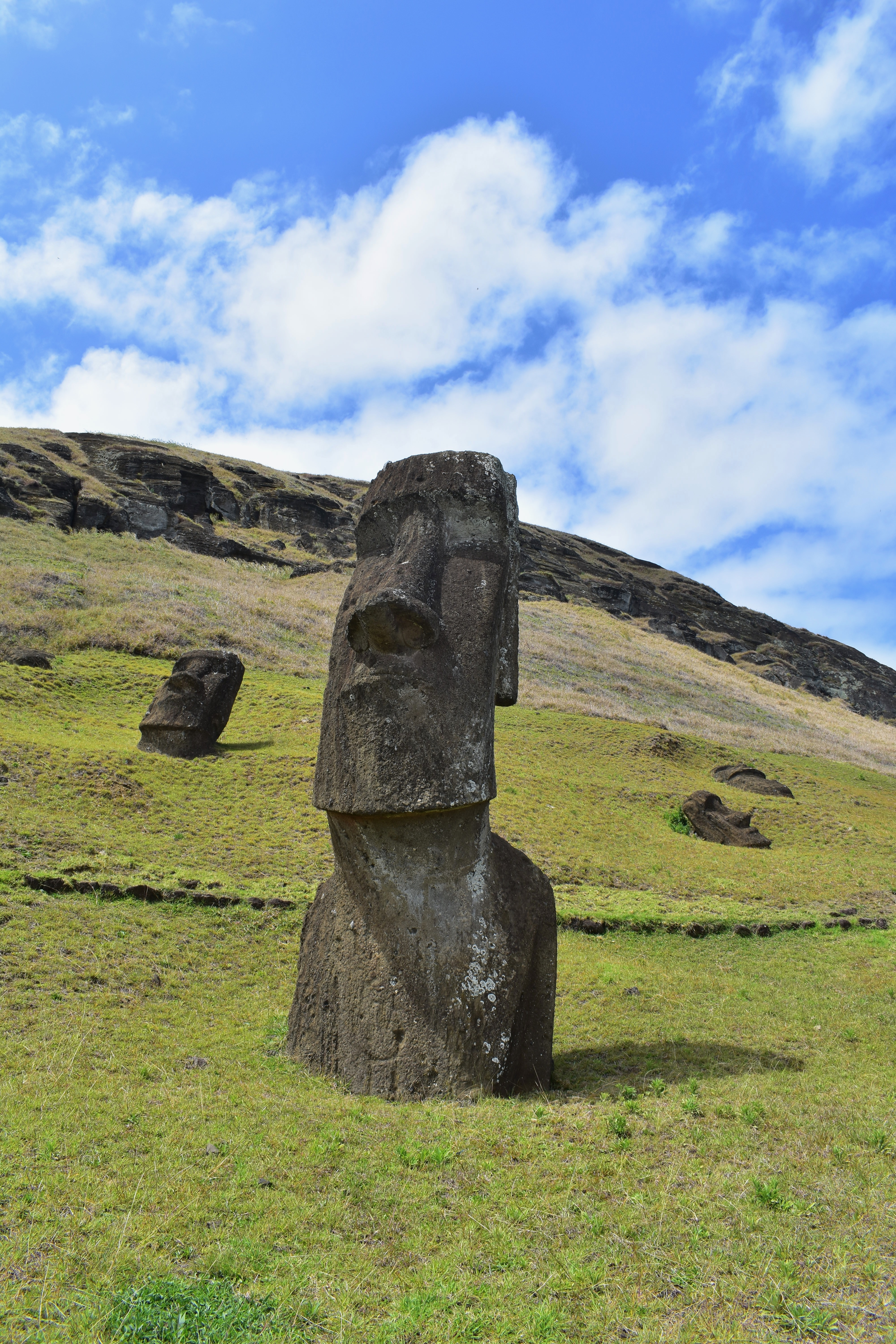 Moai at Rano Raraku (Easter Island)